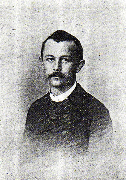 Photography of a young Jovan Cvijić.